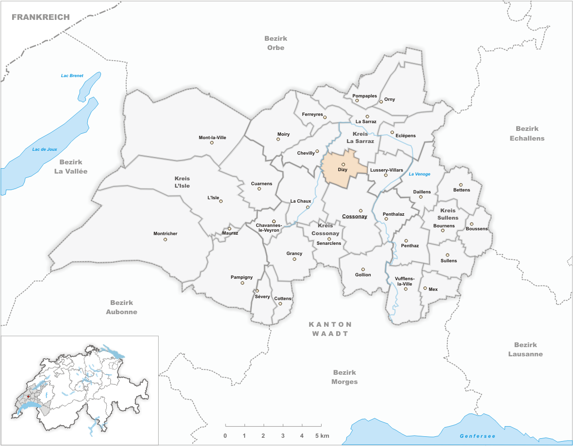 Municipality Dizy